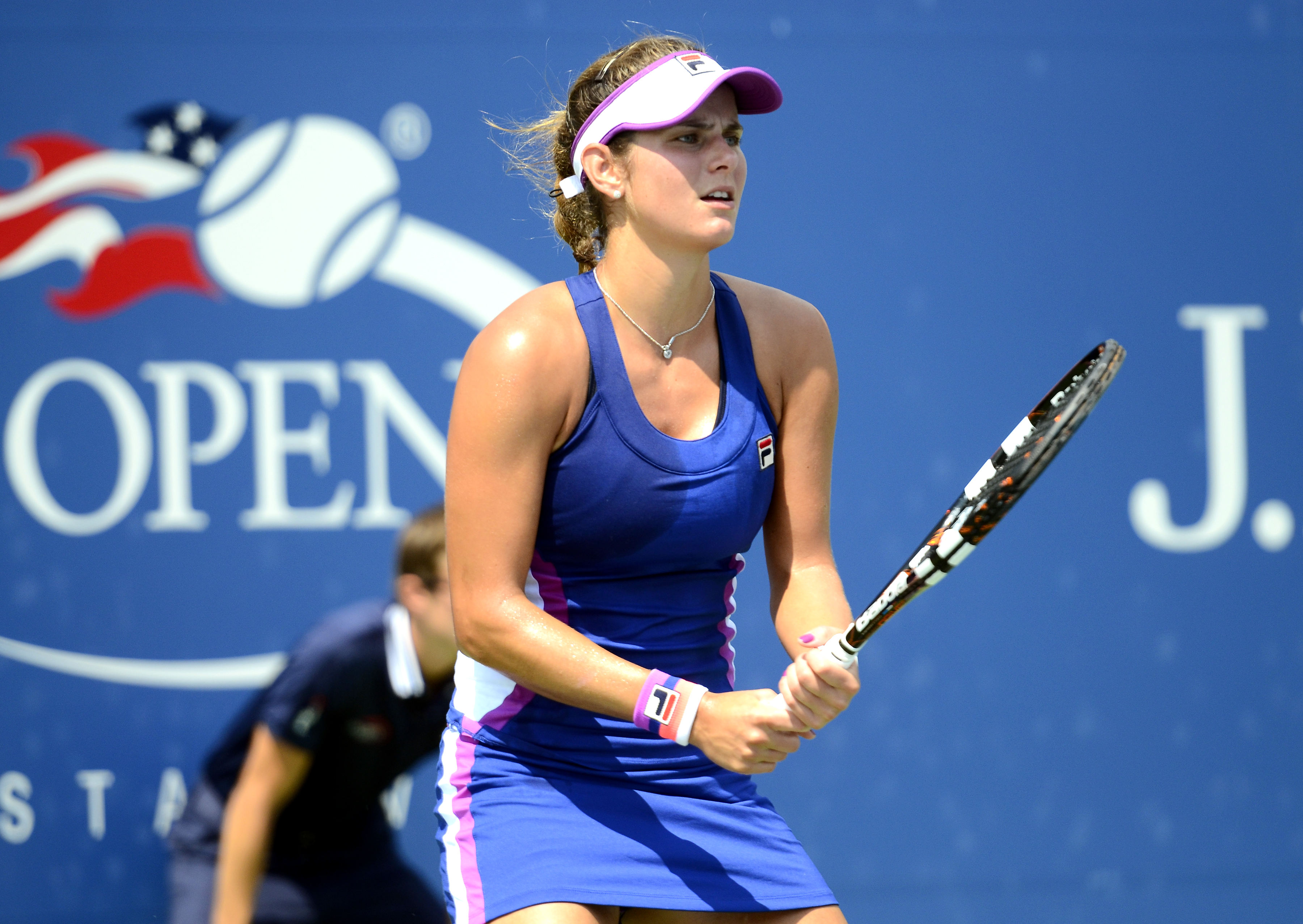 August 26, 2014 Queens, NY Flavia Pennetta (ITA) def Julia Goerges (GER)